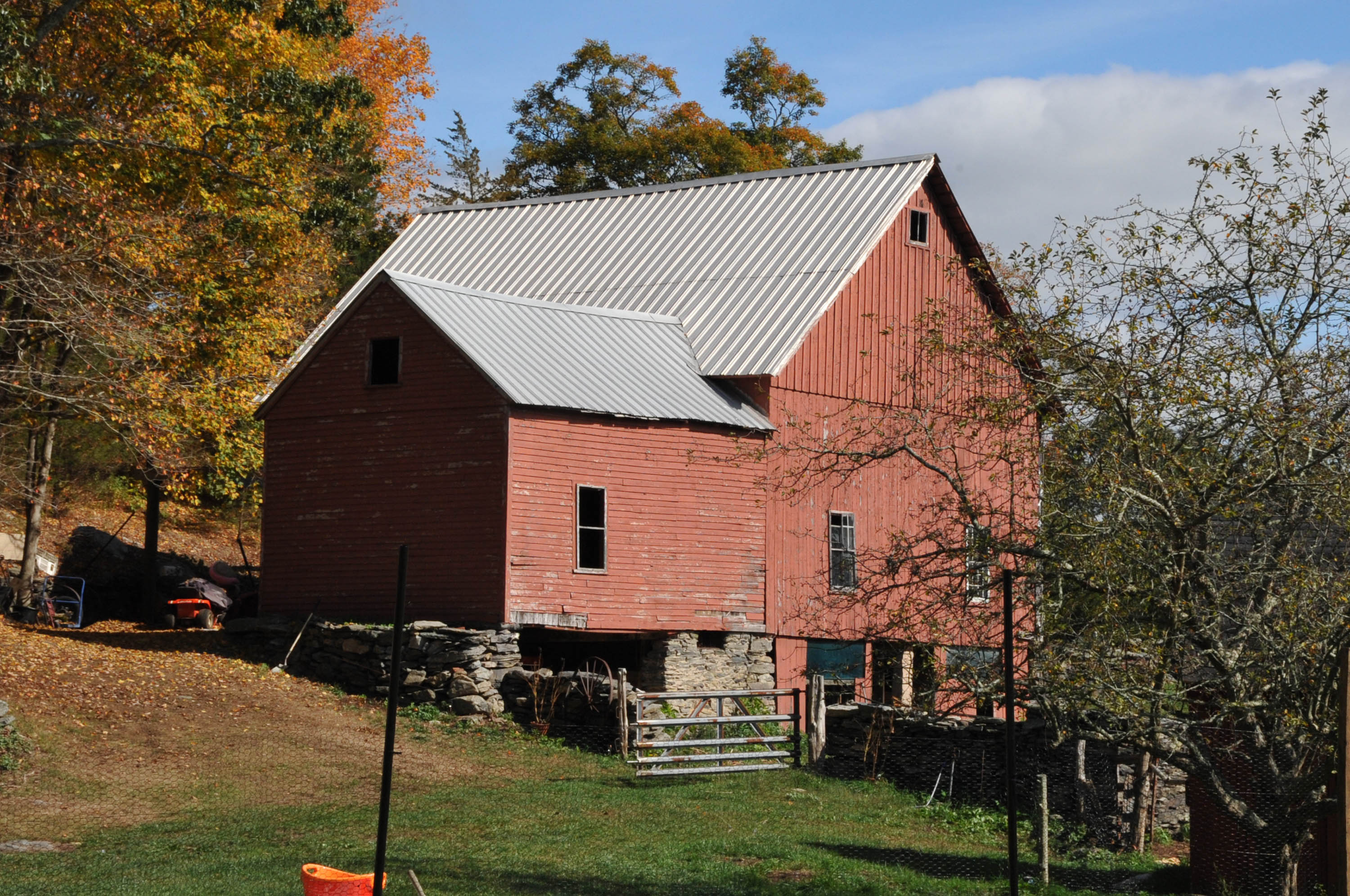 PICTURE OF THE BARN ON THE FARMSTEAD; BUILT IN MID 1700'S